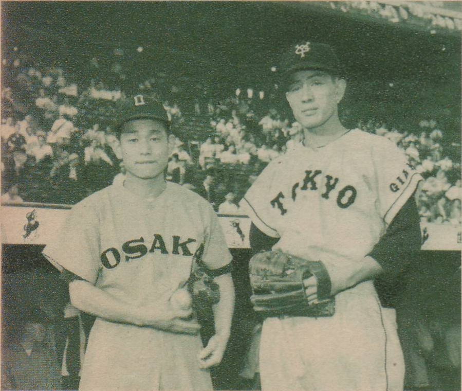 Yoshio Yoshida and Tatsuro Hirooka in Nippon Professional Baseball All-Star Game 1956.